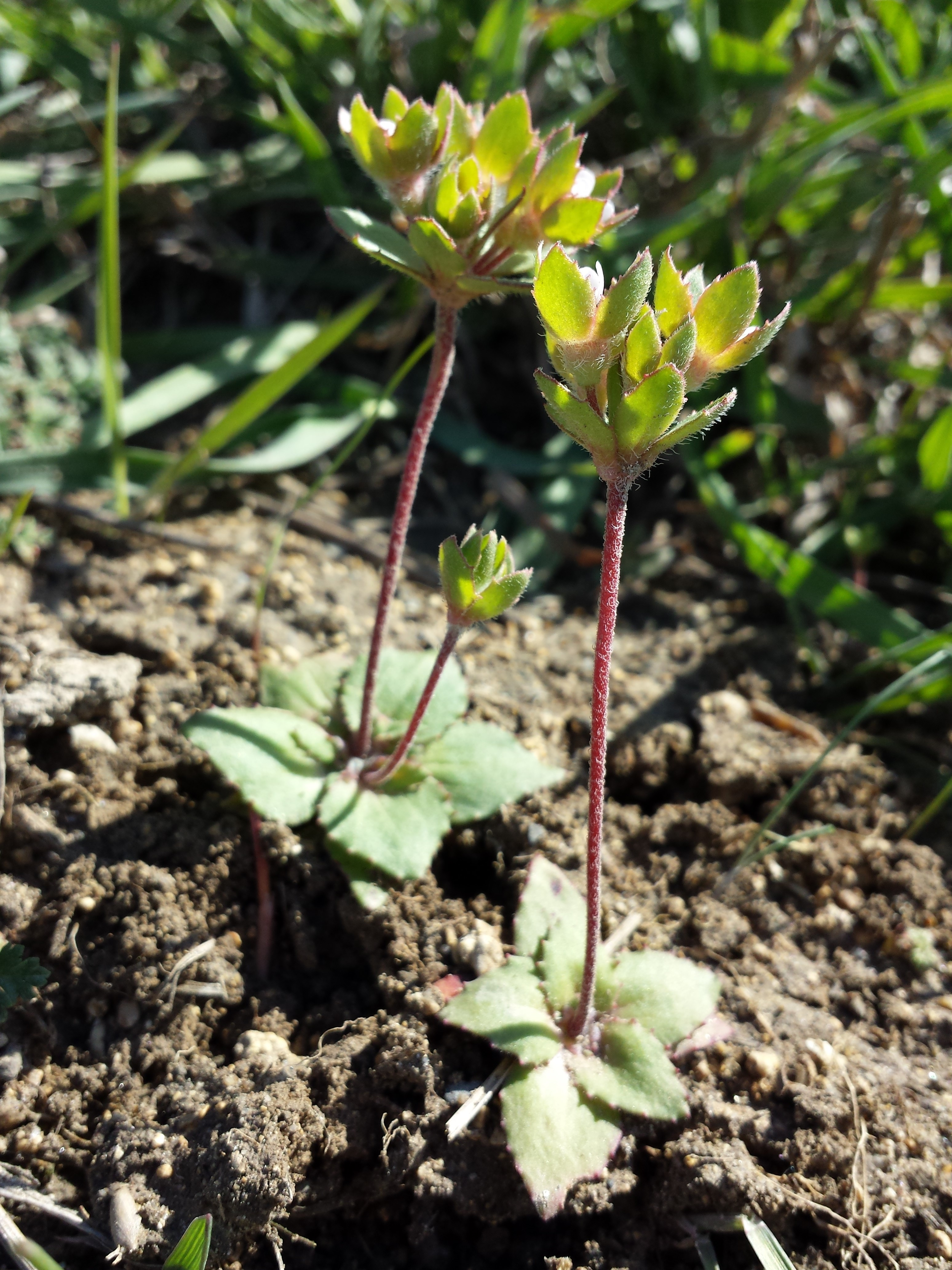 Habitus Taxonym: Androsace maxima ss Fischer et al. EfÖLS 2008 ISBN 978-3-85474-187-9 Location: road cut near Alte Mauth, Neusiedl, Neusiedl, district Neusiedl am See, Burgenland, Austria - ca. 160 m a.s.l. Habitat: batter